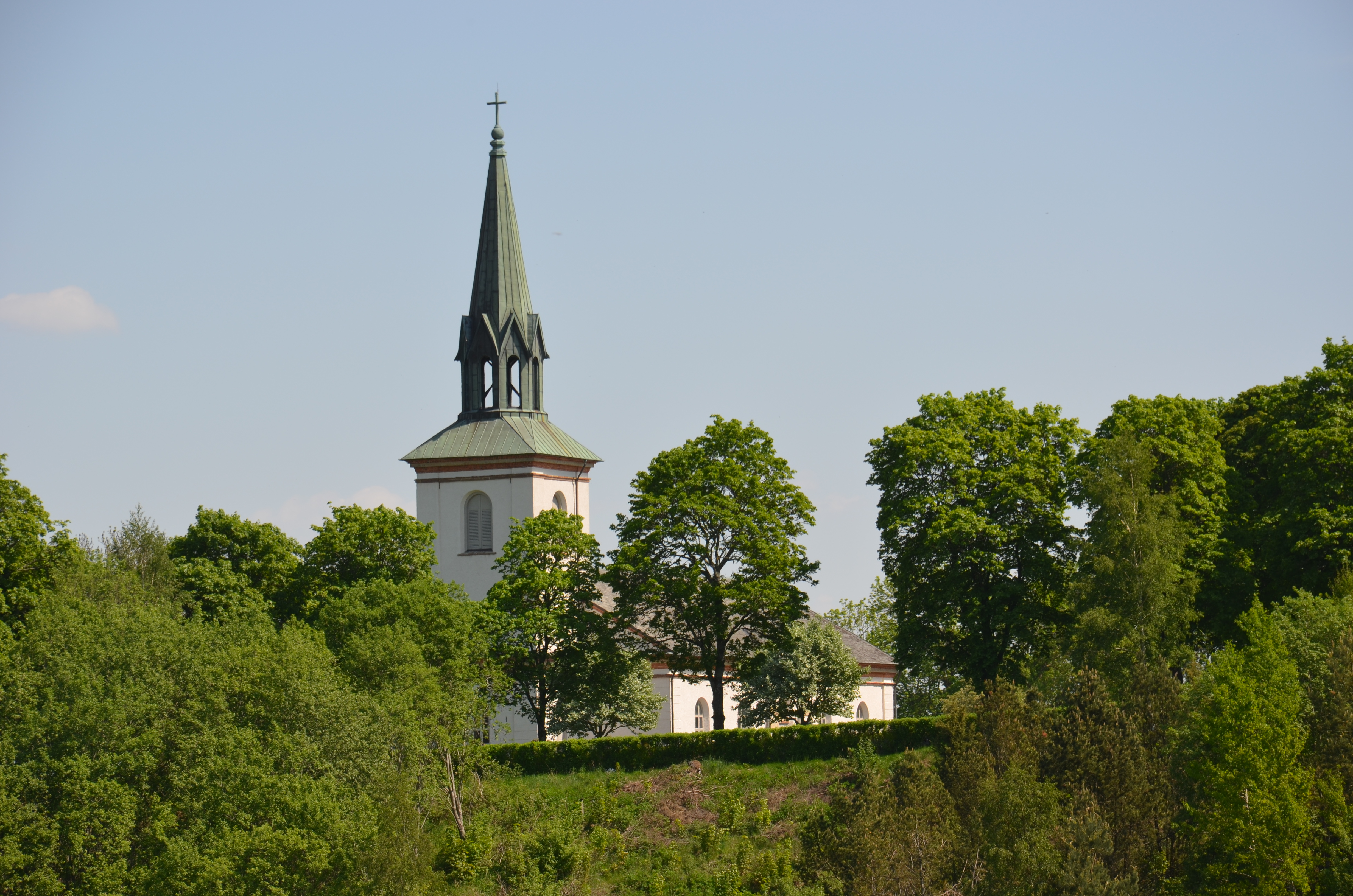 Larvs kyrka